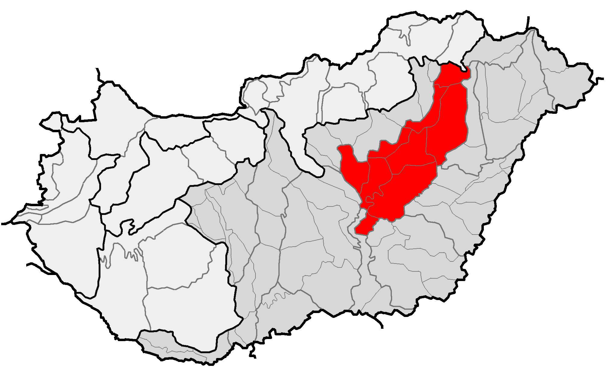 Location of geographical mesoregion of Közép-Tisza-vidék (red) and macroregion of Alföld (gray) within subdivisions of Hungary.